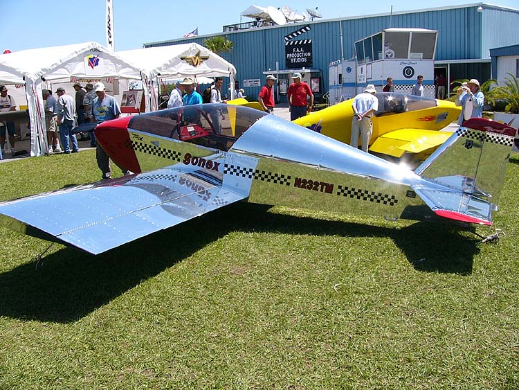 Sonex (N232TM). I took this photo at Sun n Fun 2004